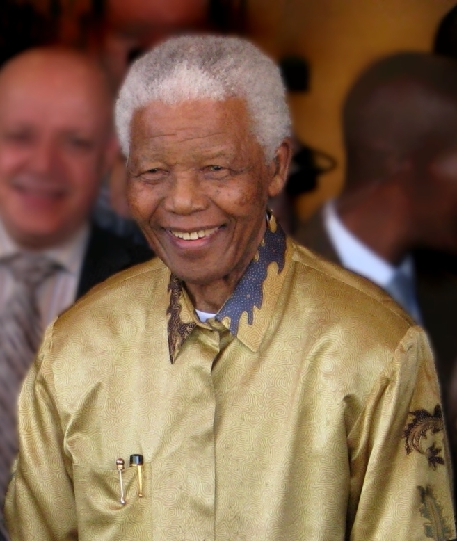 Nelson Mandela in Johannesburg, Gauteng, on 13 May 2008.